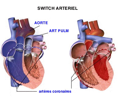 none